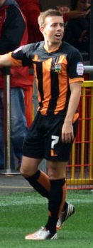 Oliver Lee. Image cropped from original at flickr.